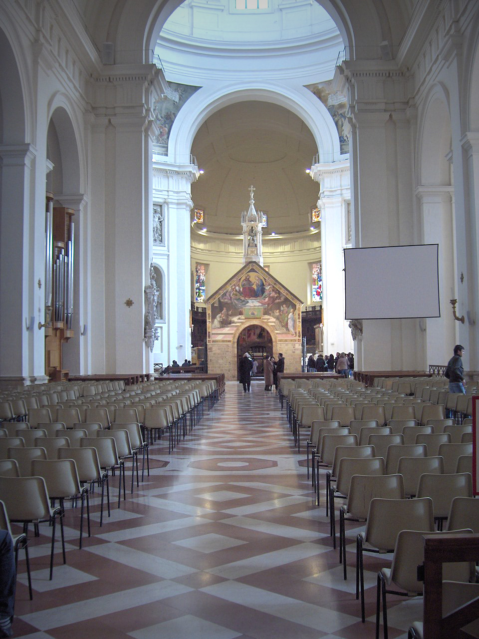 Nave of the Basilica of Santa Maria degli Angeli, Assisi, Italy